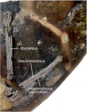 Palaeotis, partial skeleton (GMH 5882, hlotype of Palaeogrus geiseltalensis), discoverd in the Geiseltal fossil site, Saxony-Anhalt, Germany, Middle Eocene